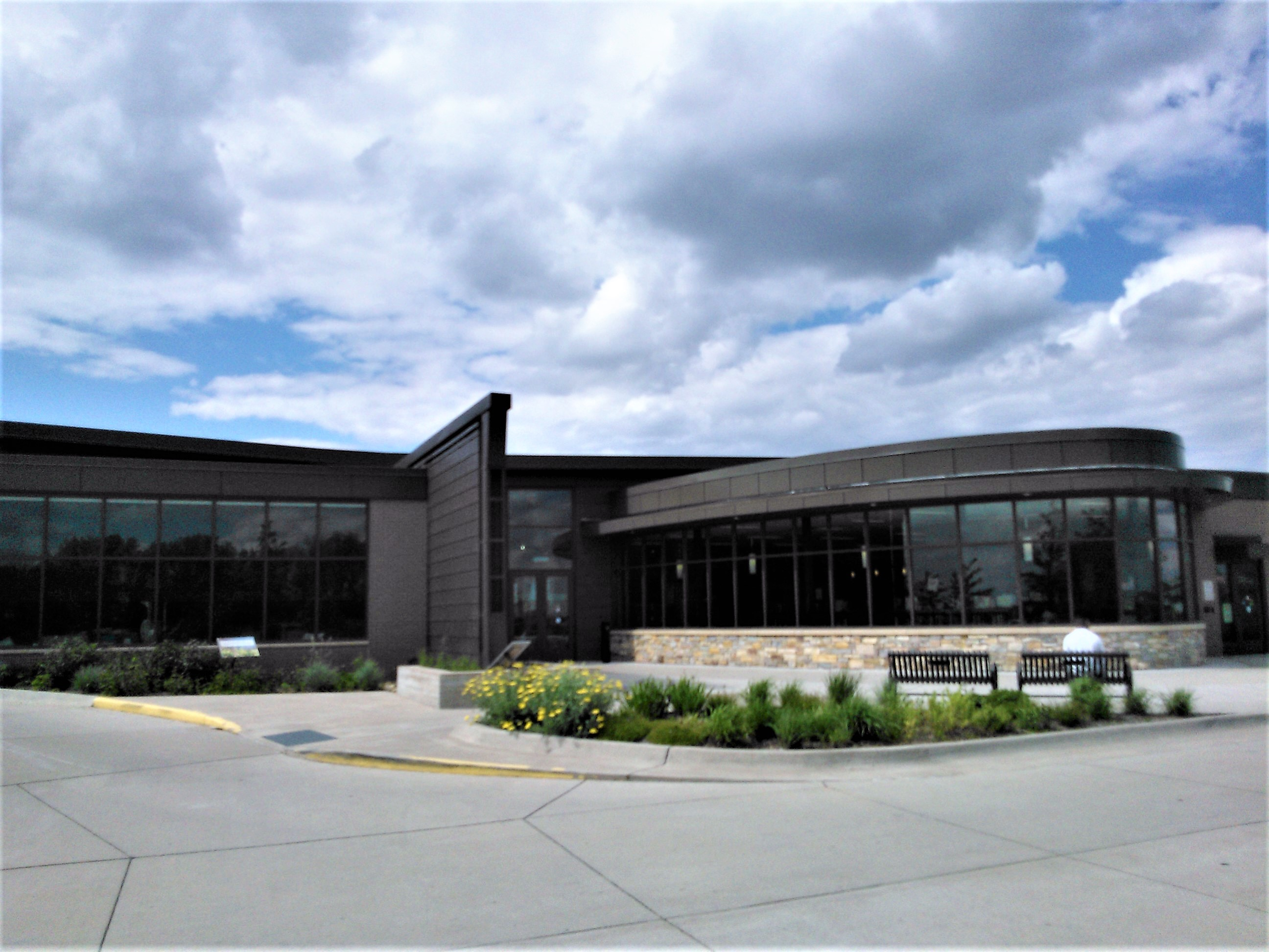 Davenport Public Library Eastern Ave. Branch located on the north side of Davenport, Iowa.